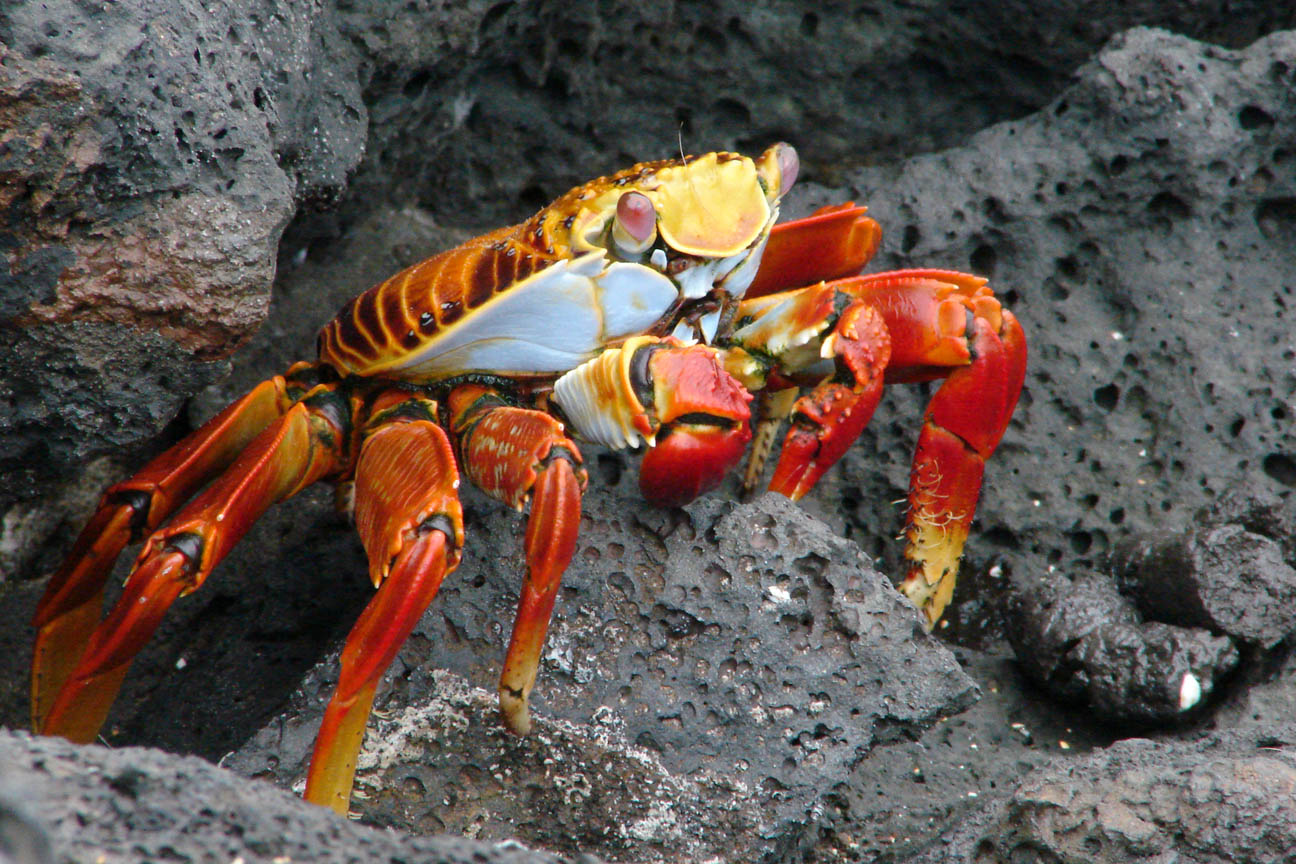 This is a photograph taken by me on the Galapagos Islands.